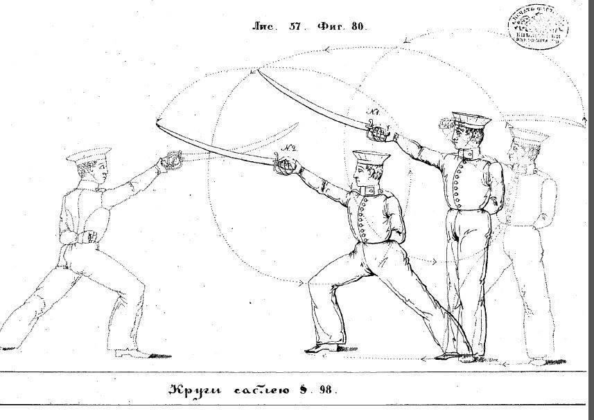 Страница из книги Соколова Н. В. «Начертание правил фехтовальнаго искусства», 1843 год